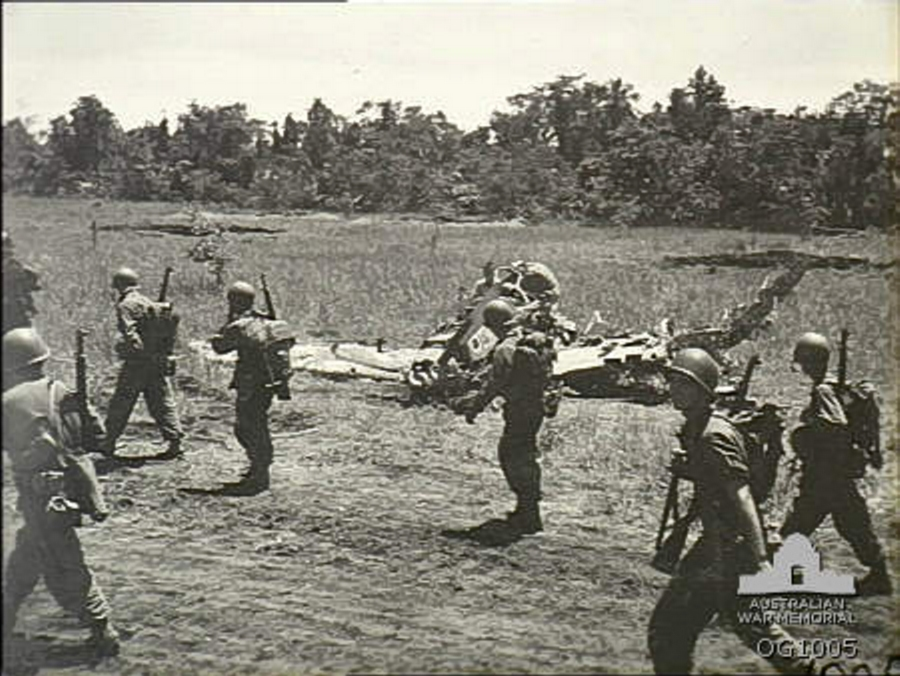 AITAPE, NORTH EAST NEW GUINEA. 1944-05-02. US TROOPS MARCH PAST A WRECKED JAPANESE FIGHTER AIRCRAFT AS THEY GO FORWARD ON PATROL. MEMBERS OF THIS AMERICAN UNIT LED RAAF ENGINEERS INTO AITAPE DURING THE INVASION.